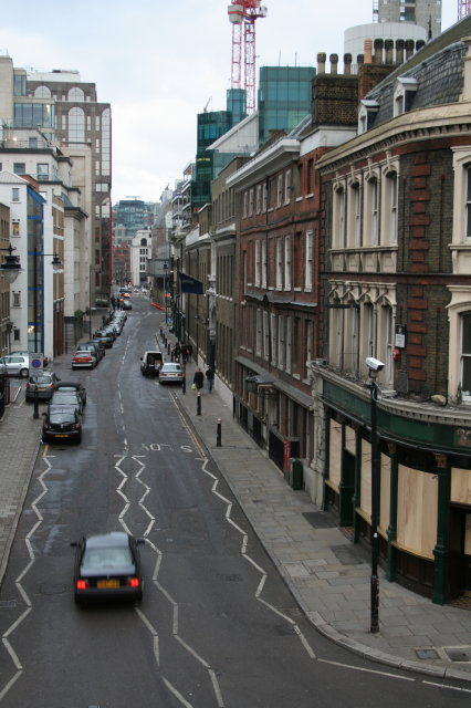 Chiswell Street looking east The buildings on the right were formerly the Whitbread Brewery, now converted to a variety of further uses.